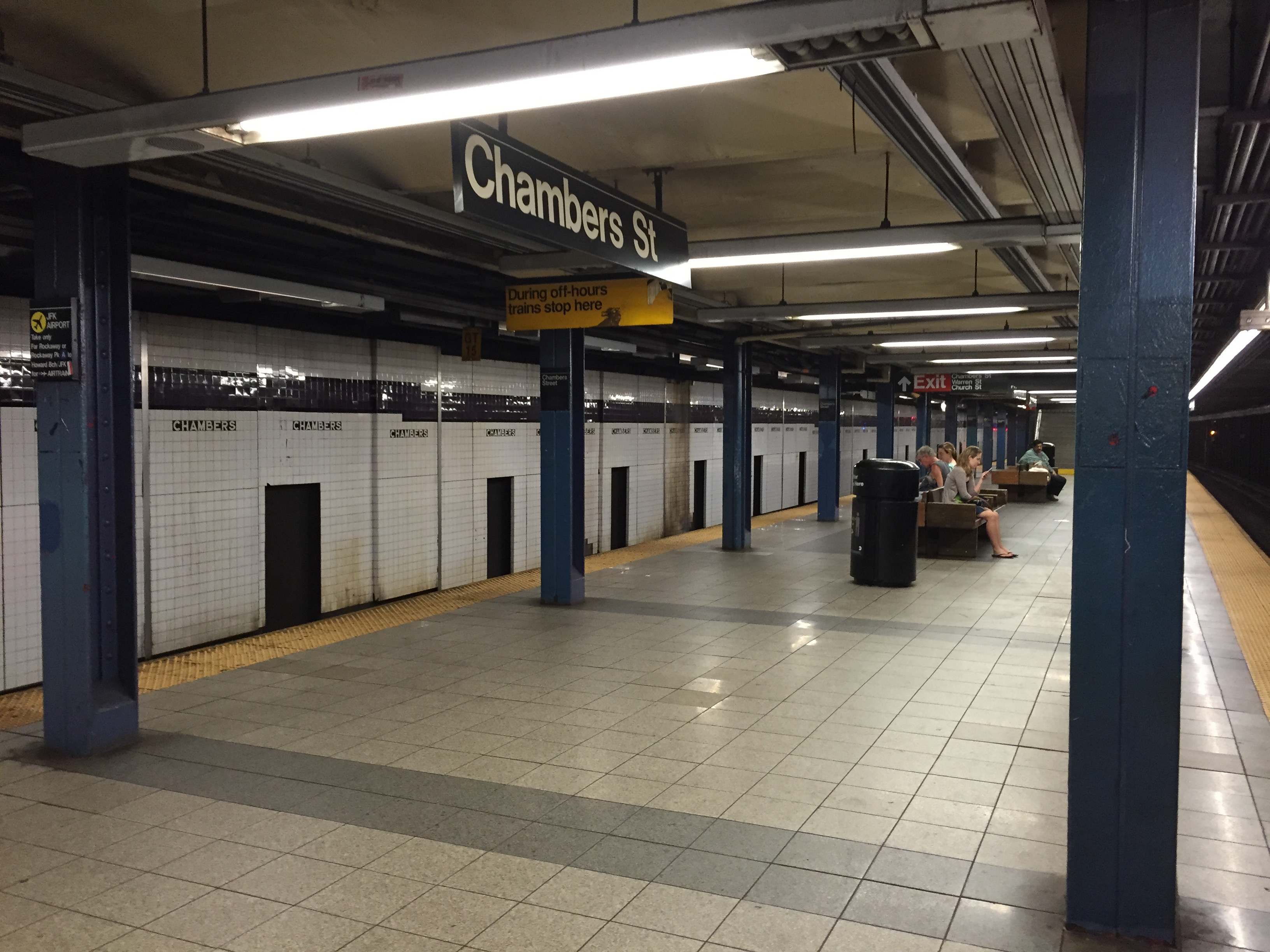 A/C express platform at Chambers Street / World Trade Center